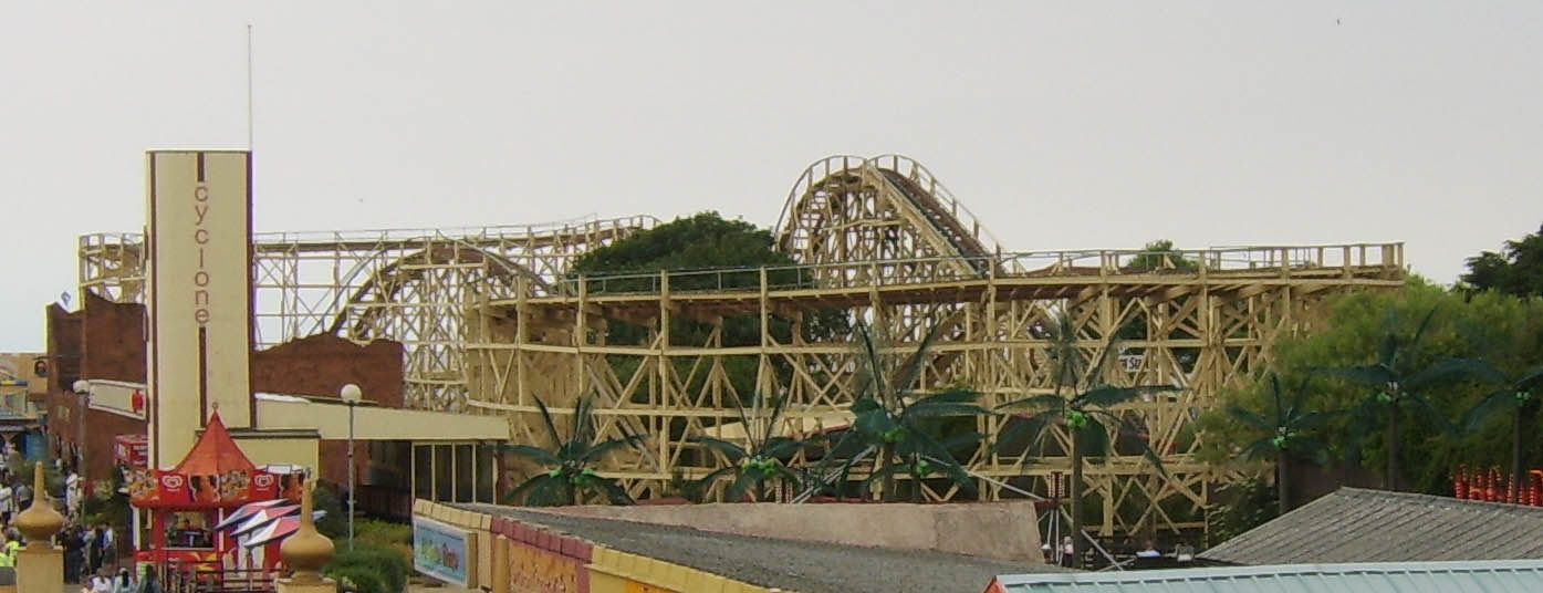 The now defunct Cyclone at Pleasureland Southport. Taken June 2006.